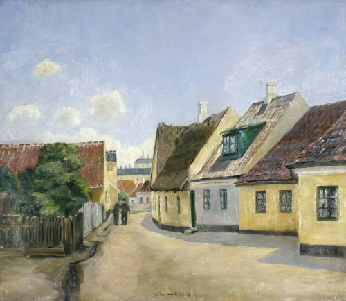 A street, probably Islandsgade, in Sundby on Amager, Copenhagen, Denmark